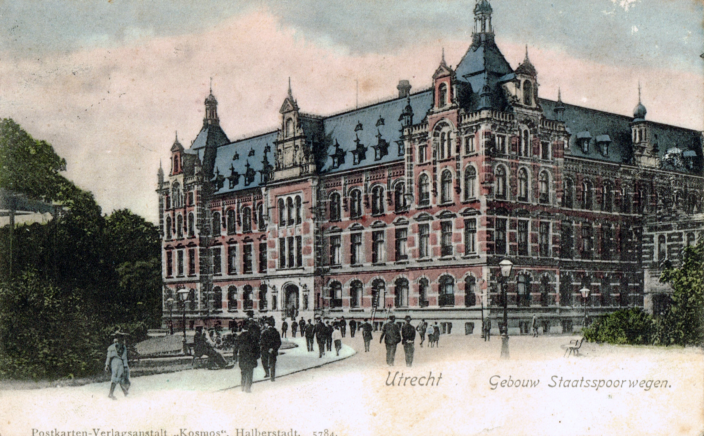 Postcard published in or before 1907